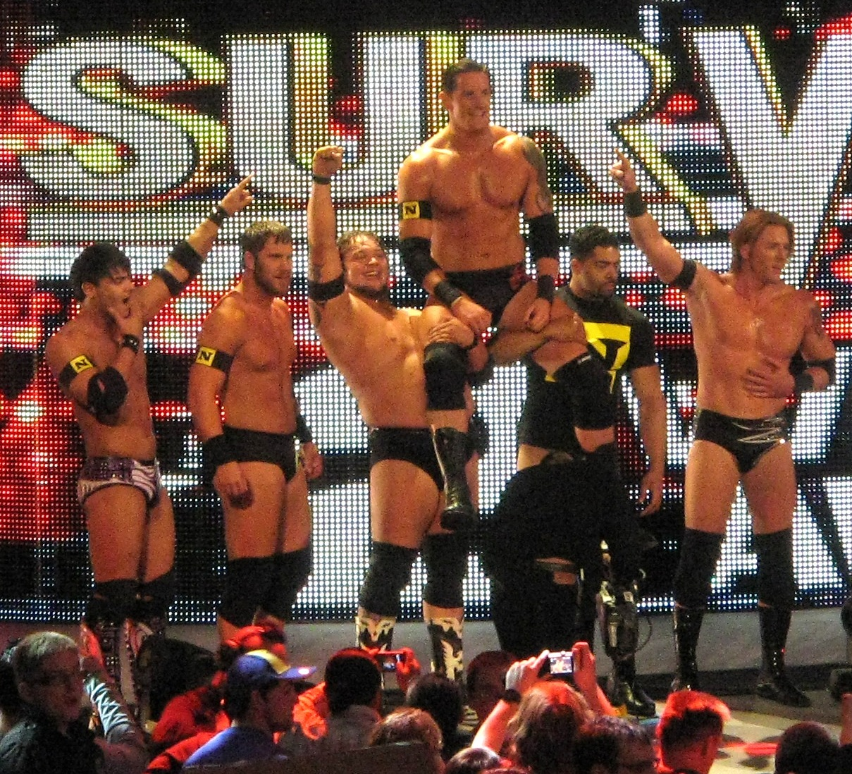 The leader of the Nexus stable, Wade Barrett, is hoisted onto the shoulders of the other Nexus members at a WWE Raw show on November 8, 2010.